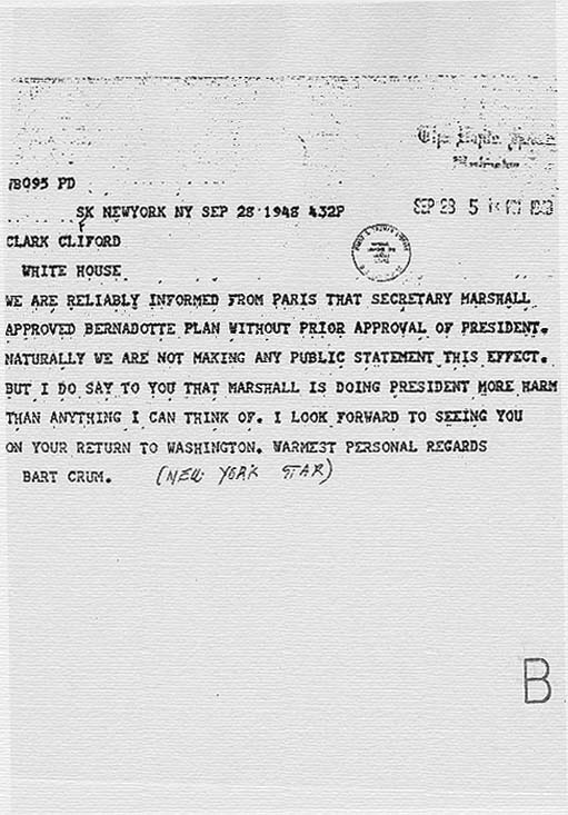 Telegram to Clark Clifford from Bartley Crum, September 28, 1948